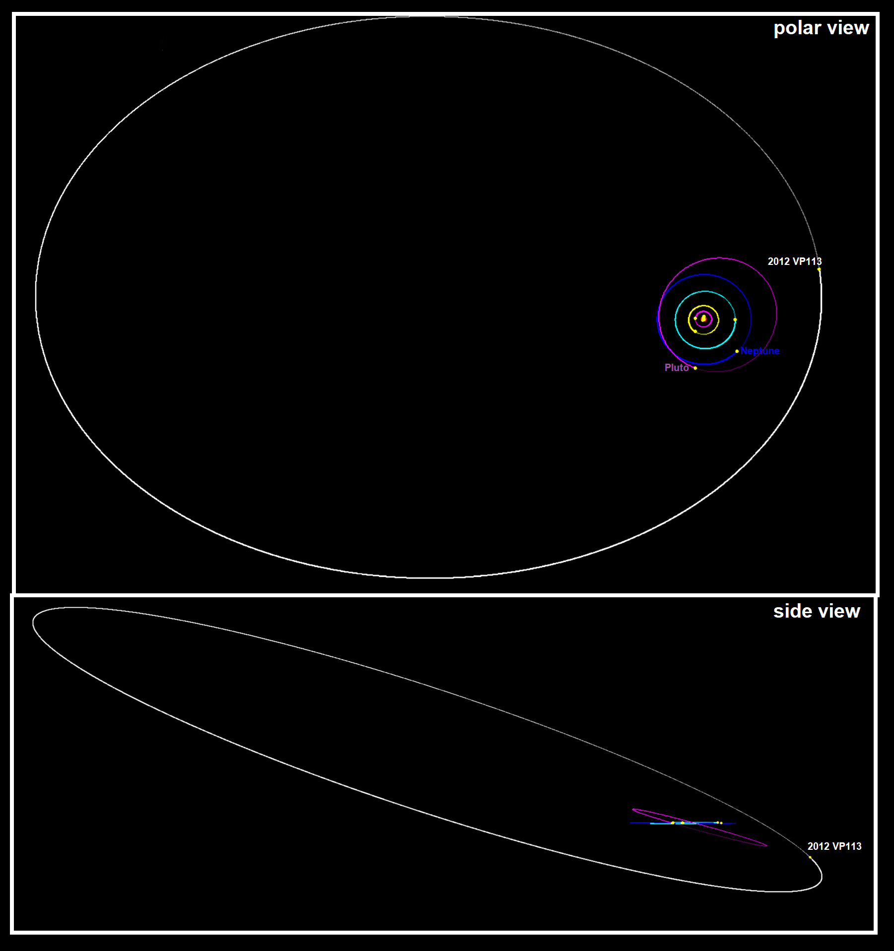 en:2012 VP113 orbit with solar system orbits